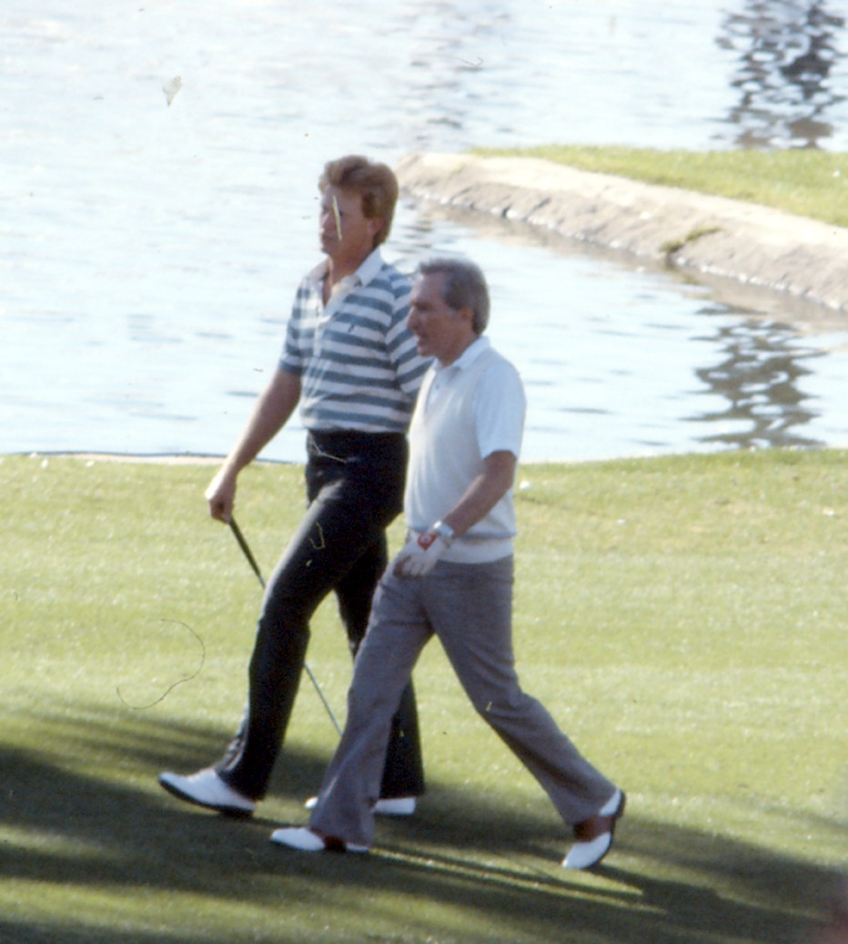 (1 in a multiple picture set) The "Moon River" singer was a star of his own TV variety show for many years, and had numerous No. 1 hit records. On his way home from this tournament, he was stopped by the Highway Patrol while driving through our city and arrested for DUI.